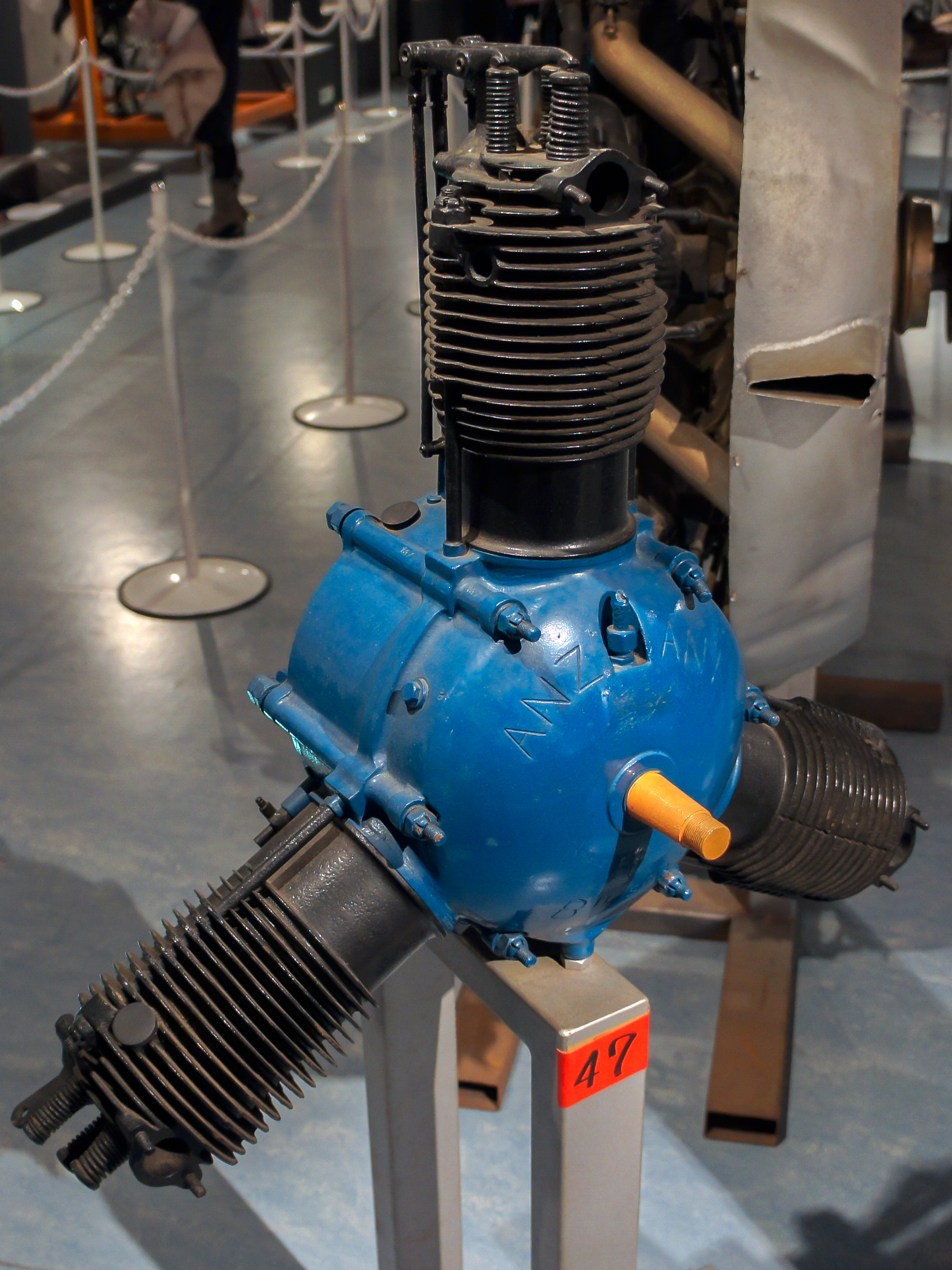 Anzani 3-cylinder Y engine, 25hp, for the Japanese Type-3 Glider (三式滑走機)